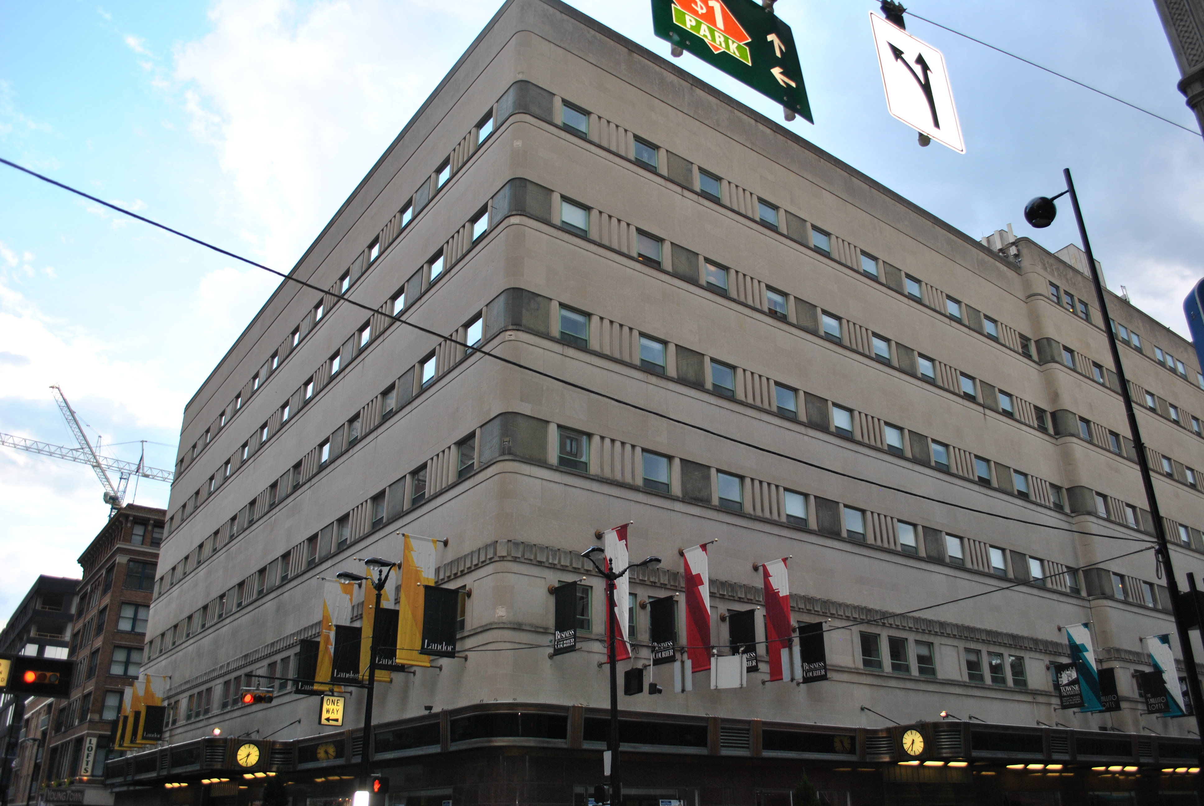 Upper corner view